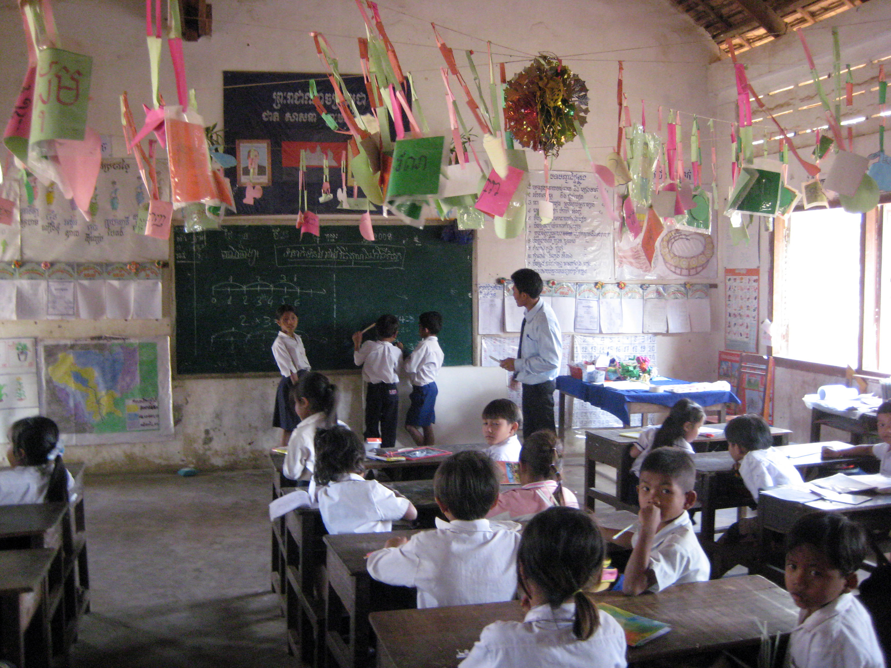 Second graders learning maths in a school in Samraong, Oddar Meancheay Province, Cambodia